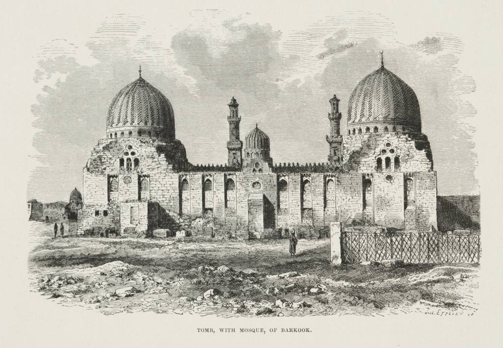 A large stand-alone building with several domes and minarets.